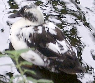 . Own work. Possible hybrid of Mallard Duck and Muscovy Cuck. Photo at Chichester Park, Ipswich, Sept 2006.